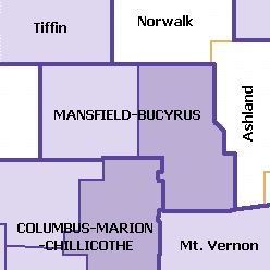 Images and their displayed information are taken from the US Census ([1] and from [2])